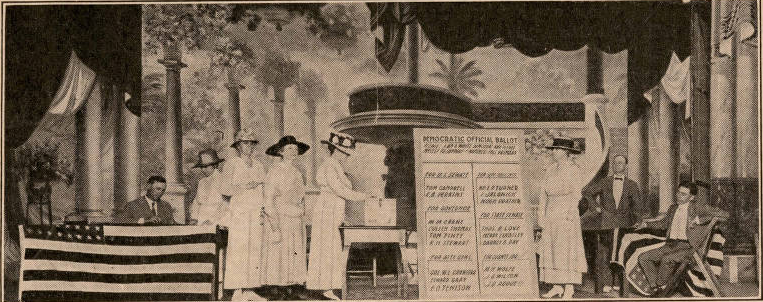 Officers of the Dallas Equal Suffrage League were the first to vote in the 1918 Texas primaries.